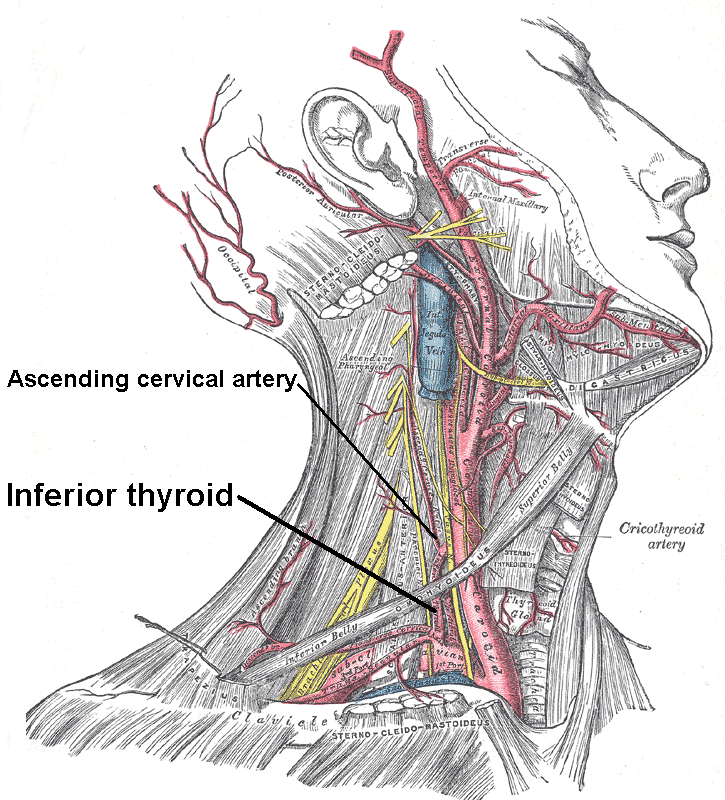 Inferior thyroid with the branch ascending cervical artery labeled. Rest of branches are hidden behind other tissues.